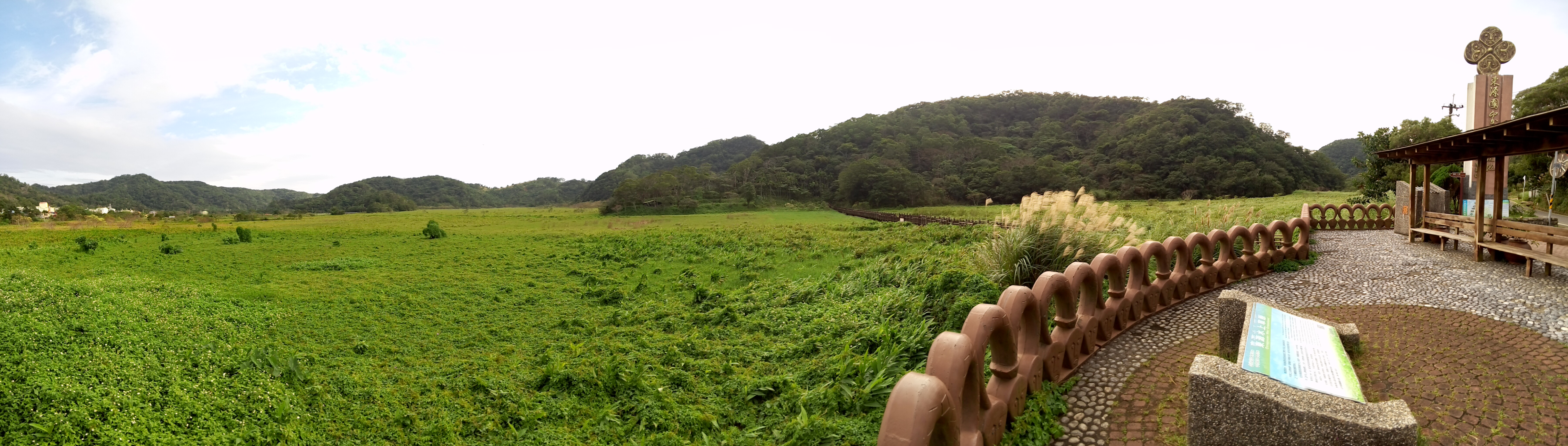 Taiwan Pingtung County Dongyuan Wetland